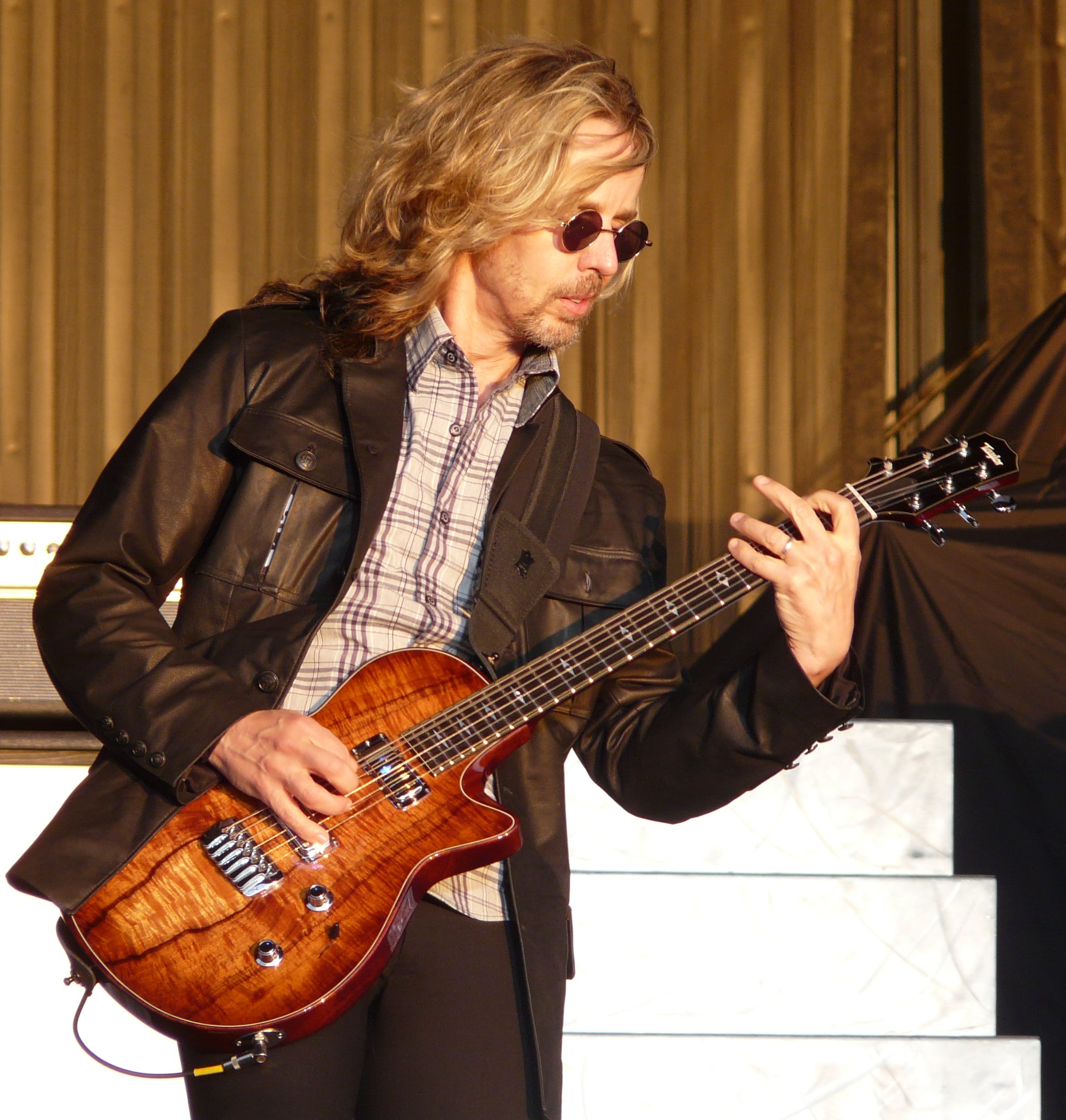 TOMMY SHAW of STYX PHOTO BY MATT BECKER Taken on June 13, 2008 at the Grand Casino in Hinckley, MN